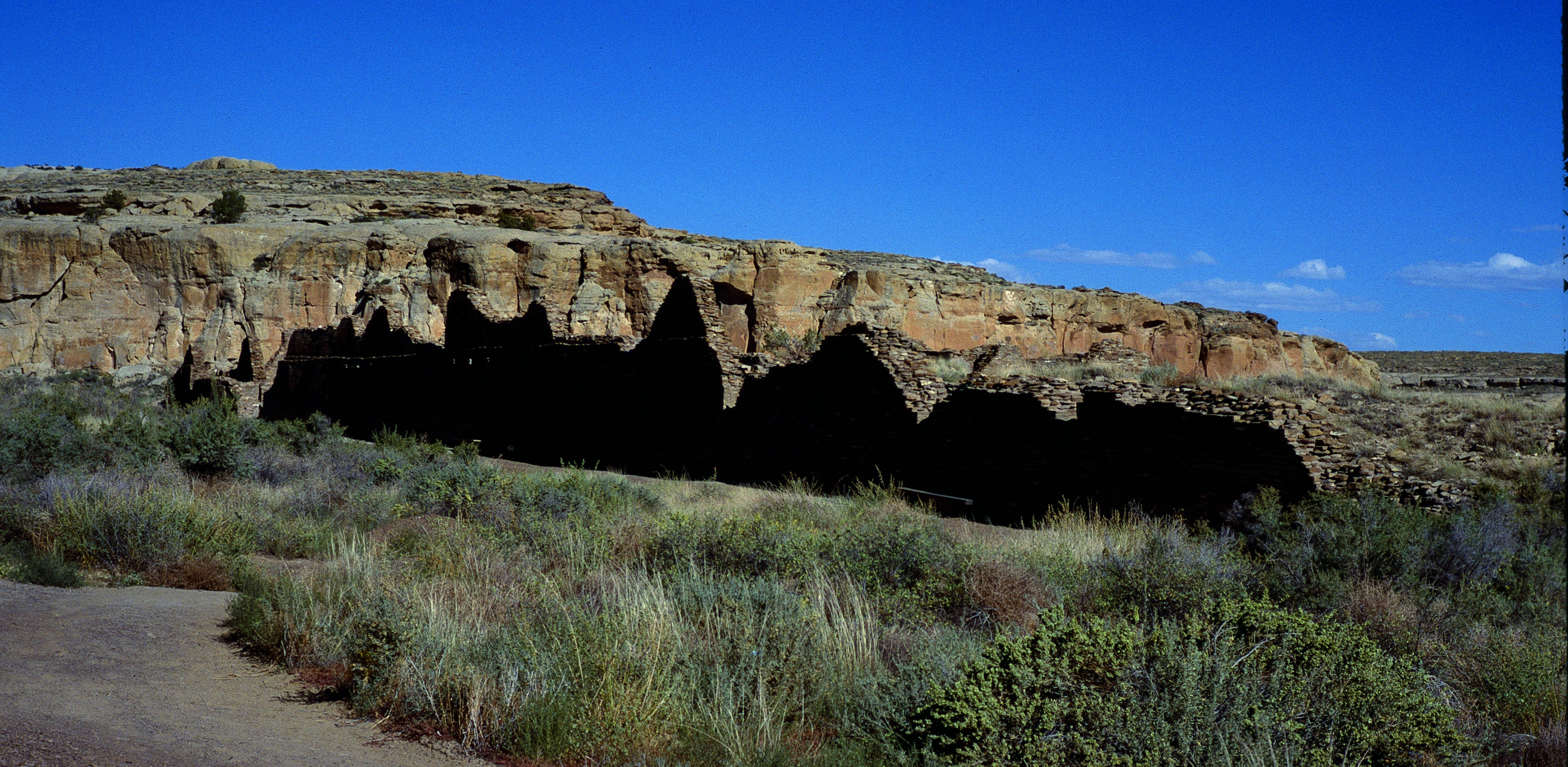 Chetro Ketl, Chaco Canyon, New Mexico, U. S. A.